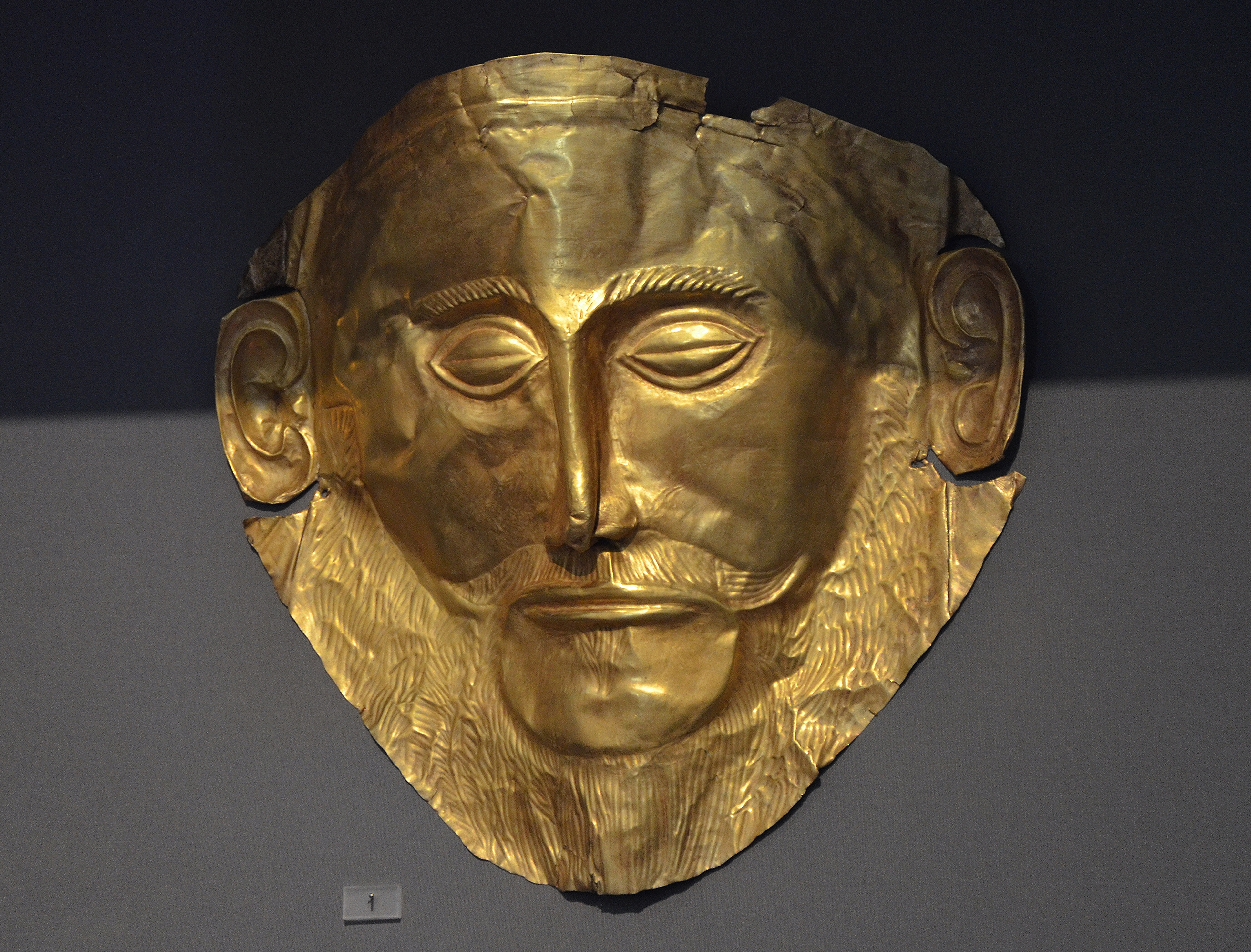 Gold death-mask, known as the 'mask of Agamemnon', from Mycenae, grave Circle A, 16th century BC, Athens Archaeological Museum, Greece